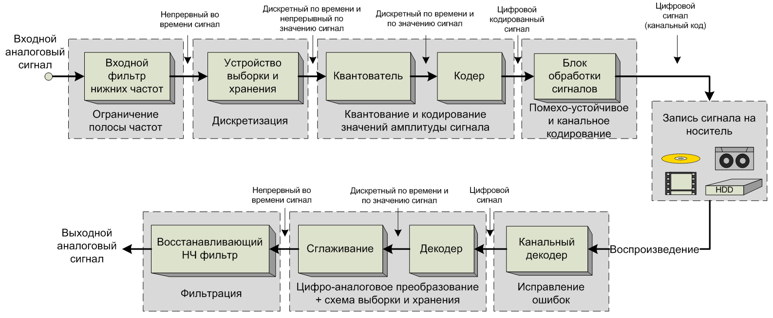 Digital sound recording scheme